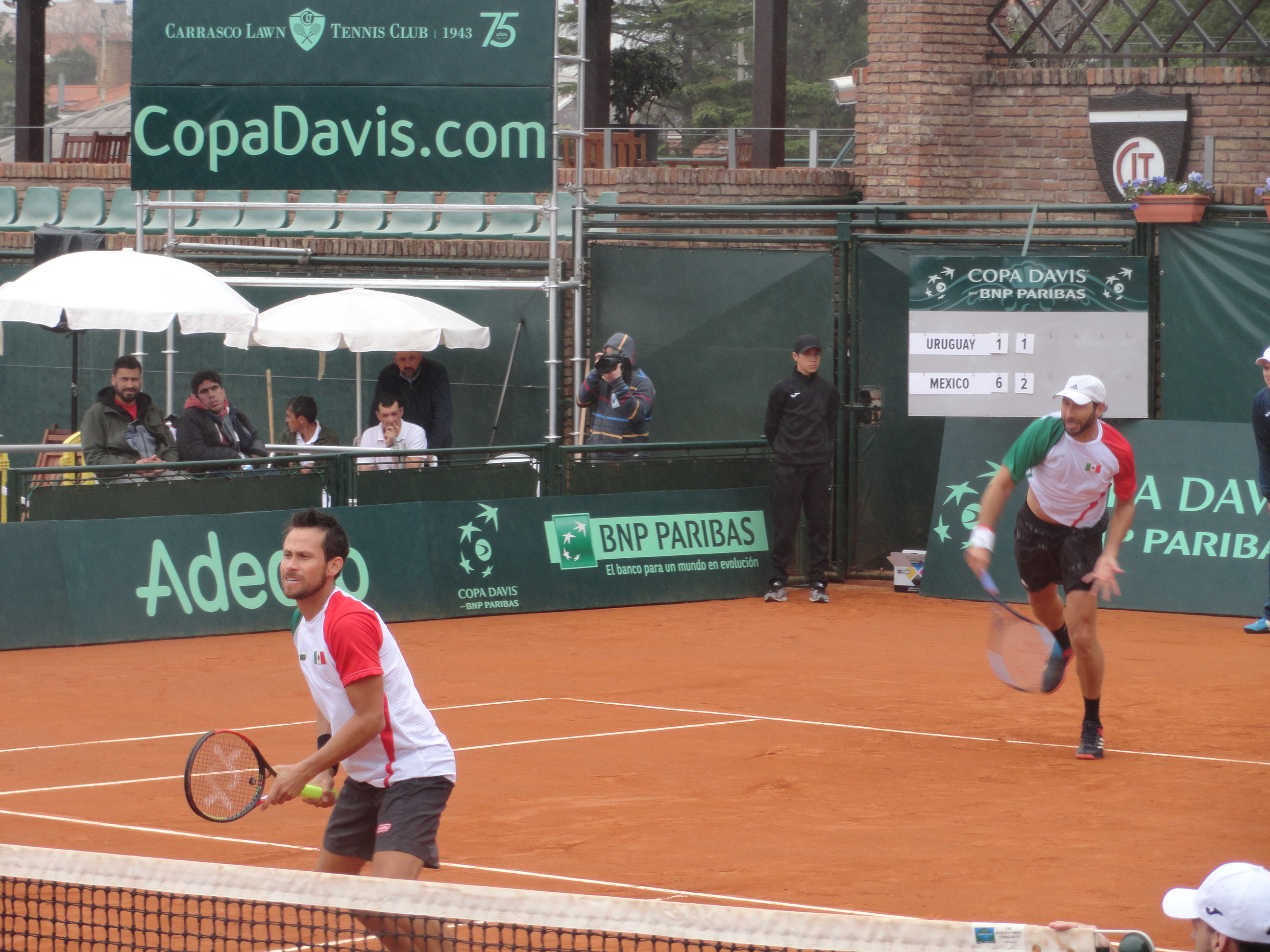 Doubles tennis match at the 2018 Davis Cup Americas Zone match between Uruguay and Mexico, held at the Carrasco Lawn Tennis in Montevideo.